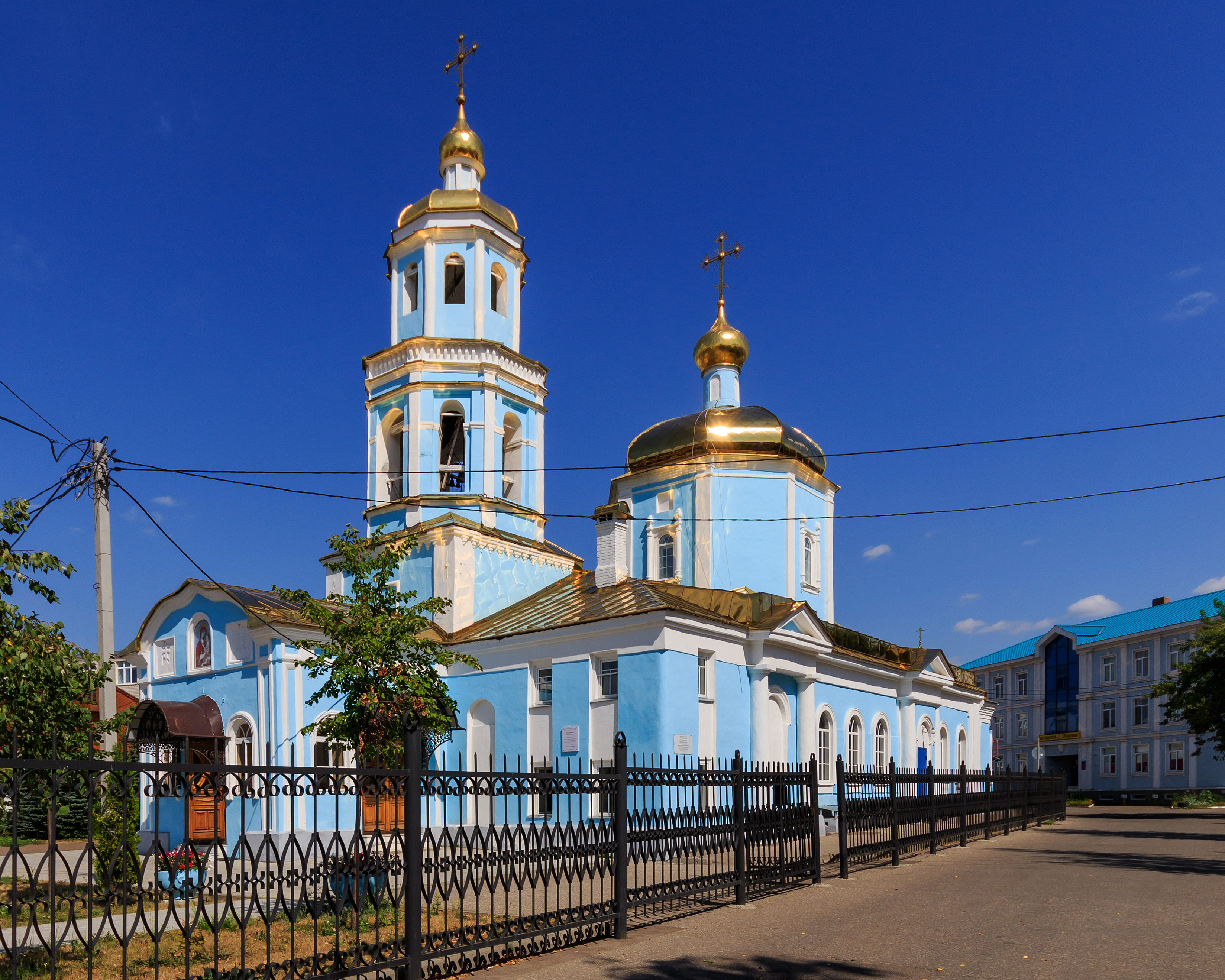 Church of Our Lady of Tikhvin in Kazan, Russia